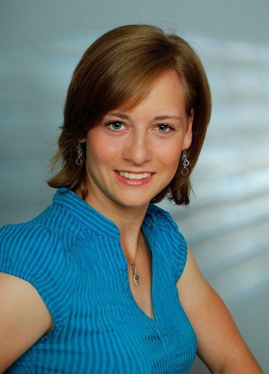 Anna Schaffelhuber, German Monoskier